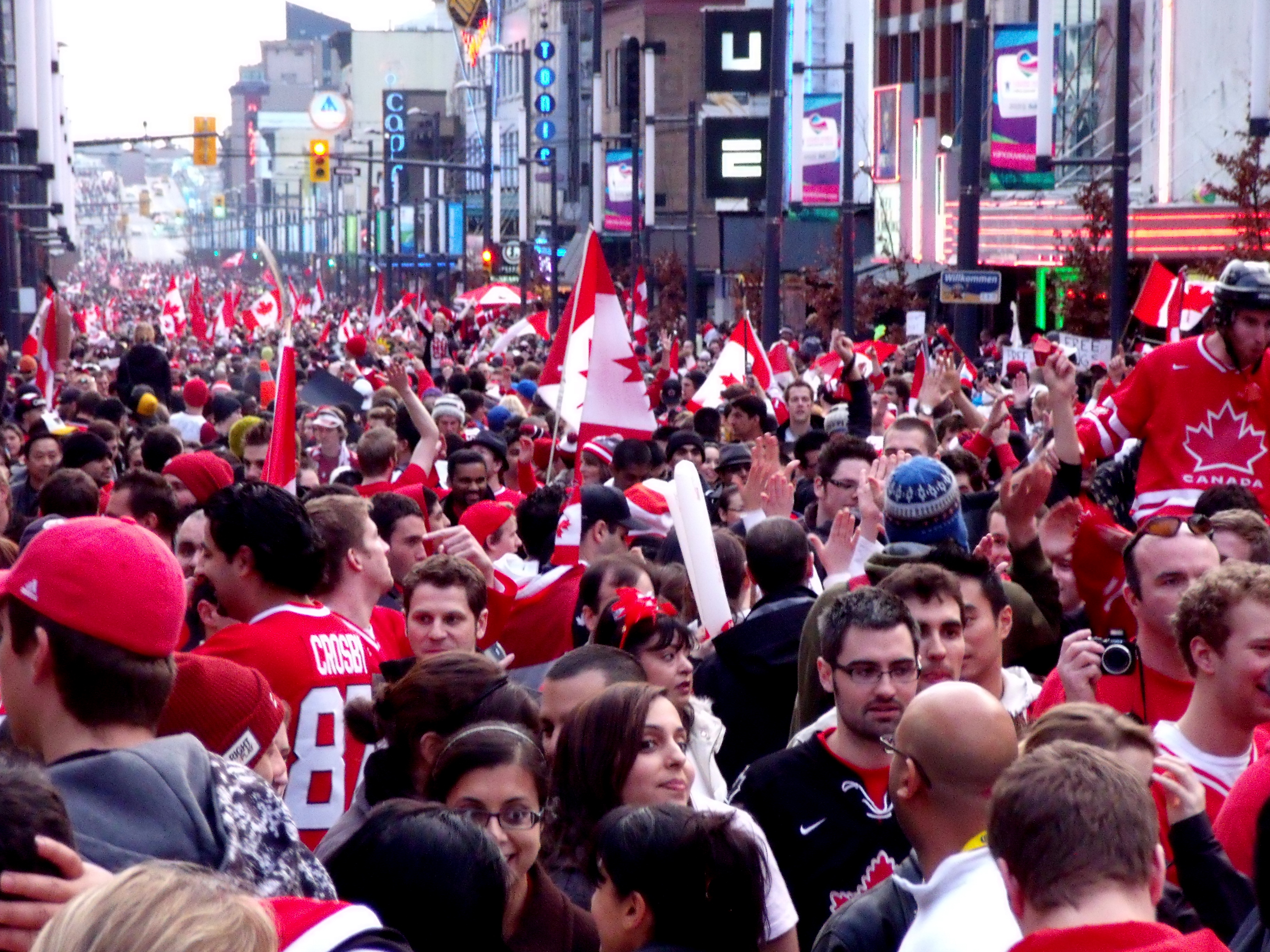 Crowds take to Robson Street in downtown Vancouver celebrating Canada men's gold hockey Winter Olympic game.